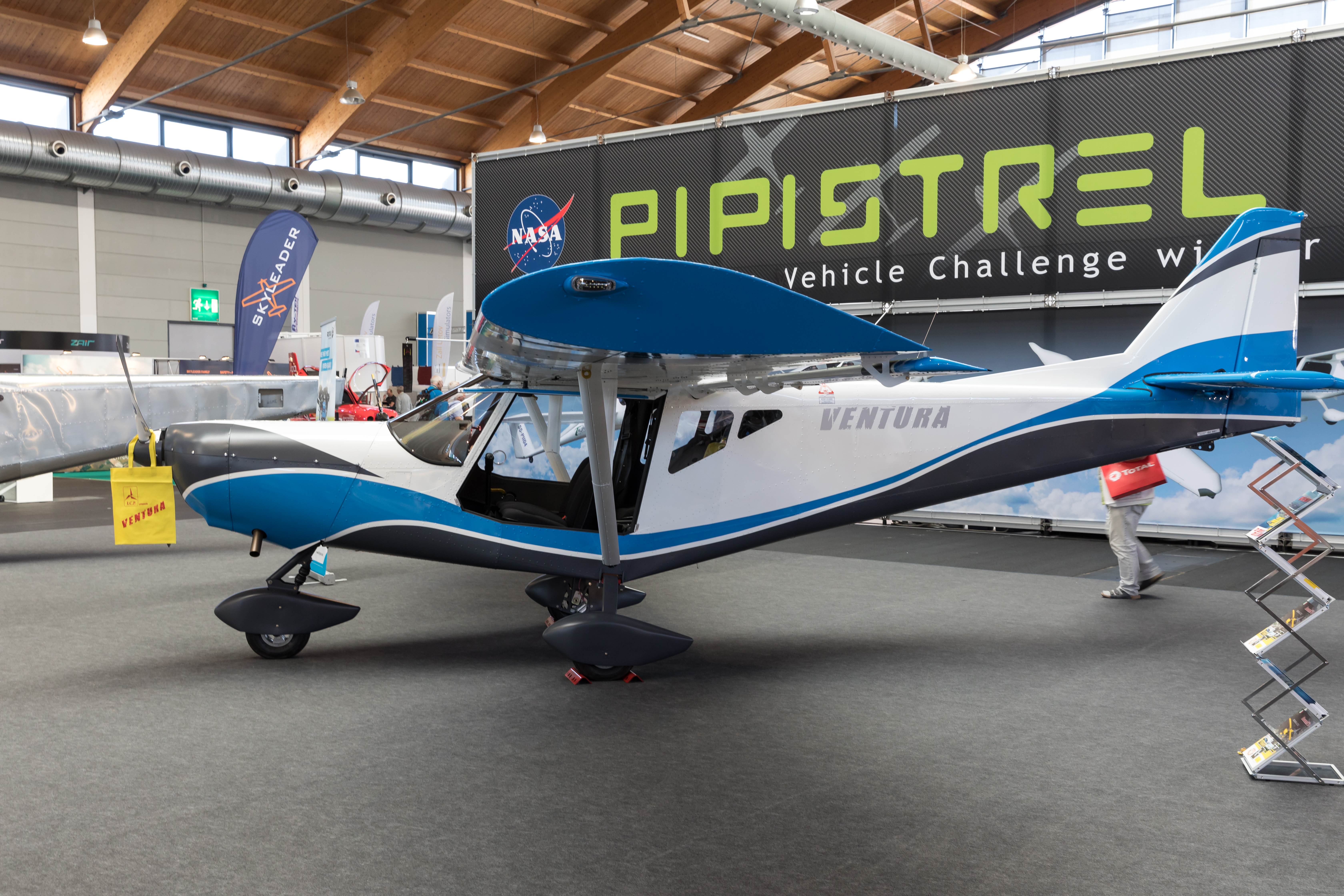 ICP Ventura at AERO Friedrichshafen 2018